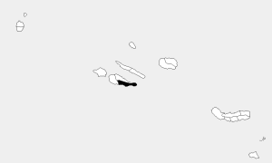 Map of the Azores highlighting Lajes do Pico